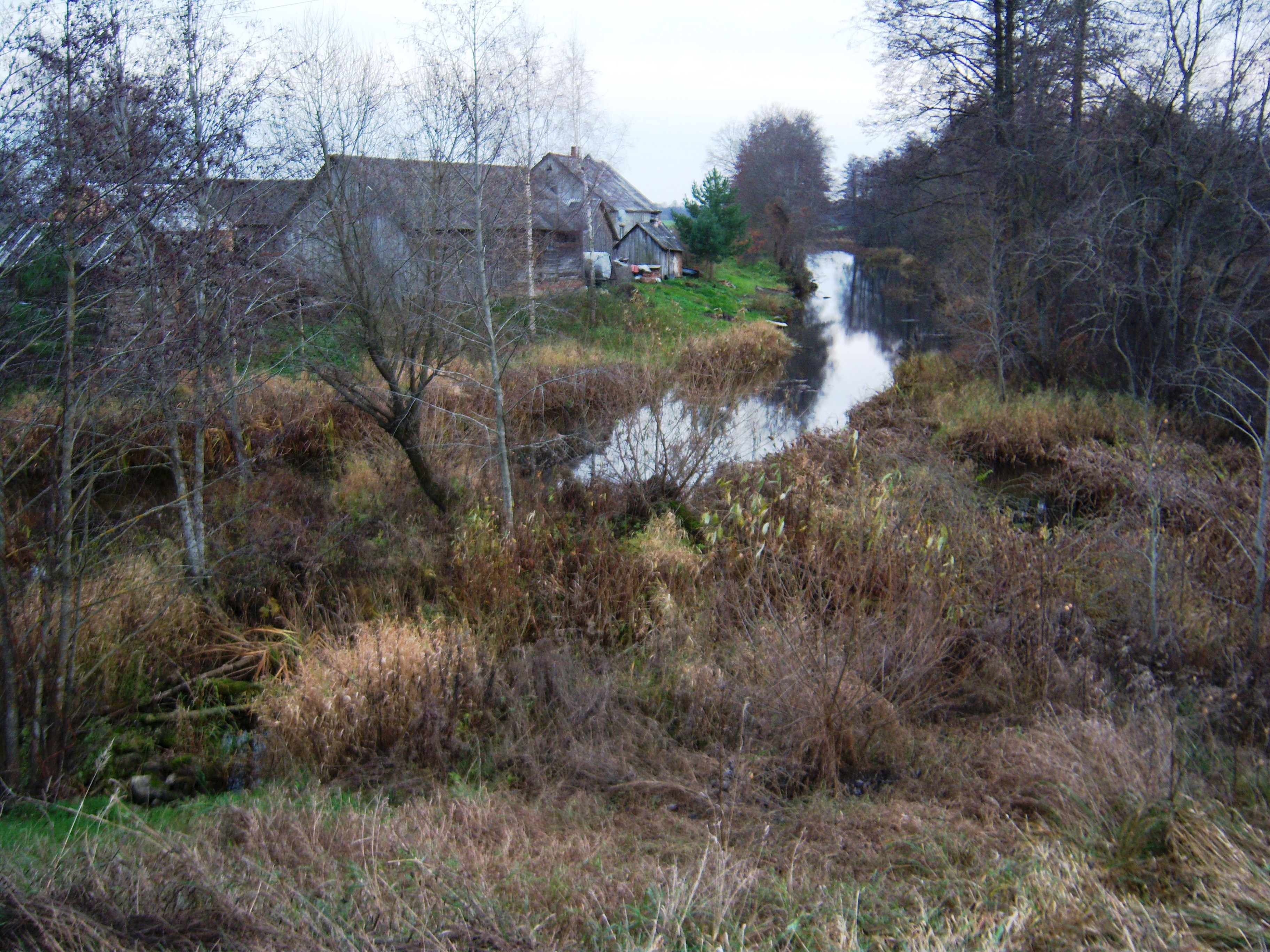 Pyvesa river in Moliūnai, Pasvalys District, Lithuania